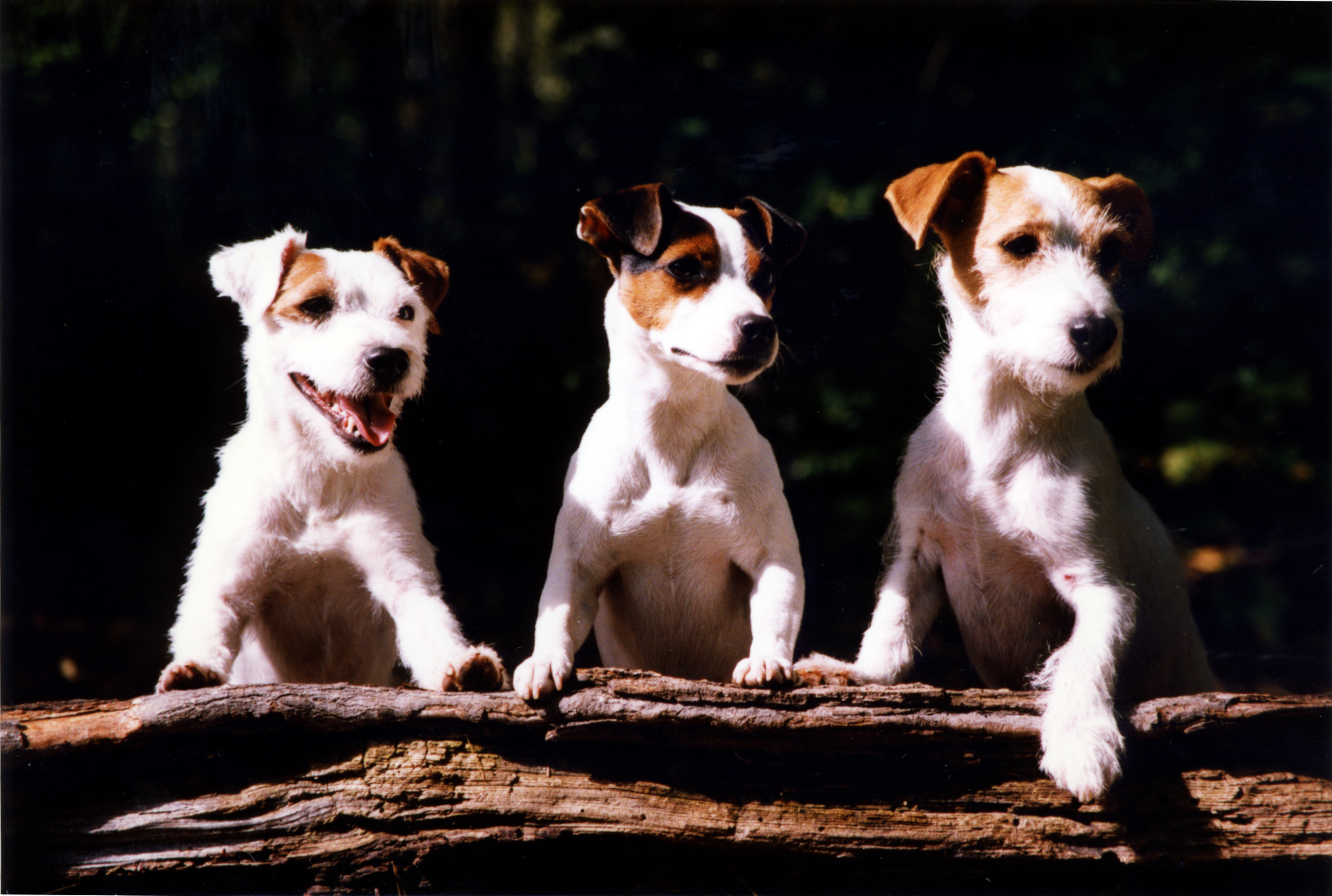 three Jack Russells